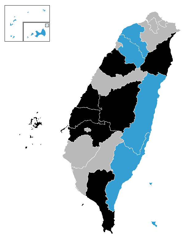 2010 Township Councillors Election Results